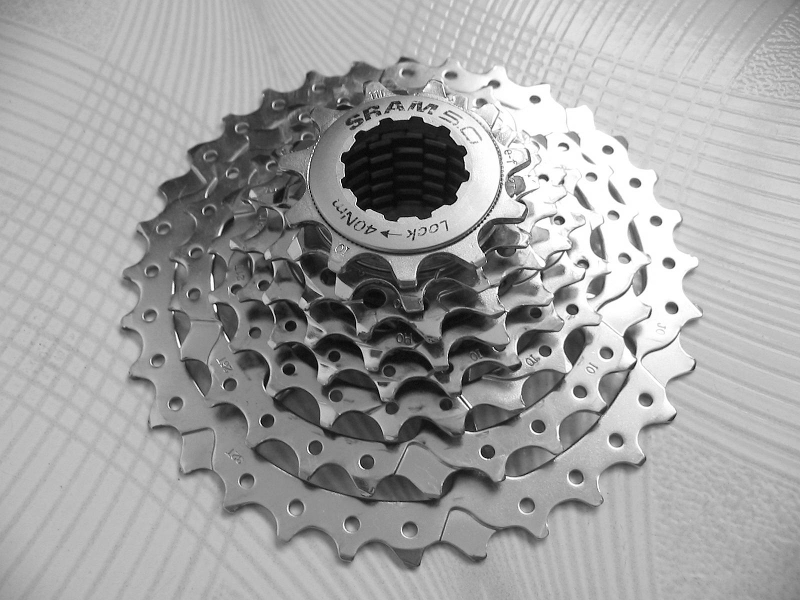 SRAM 5.0 mountain bike cassette